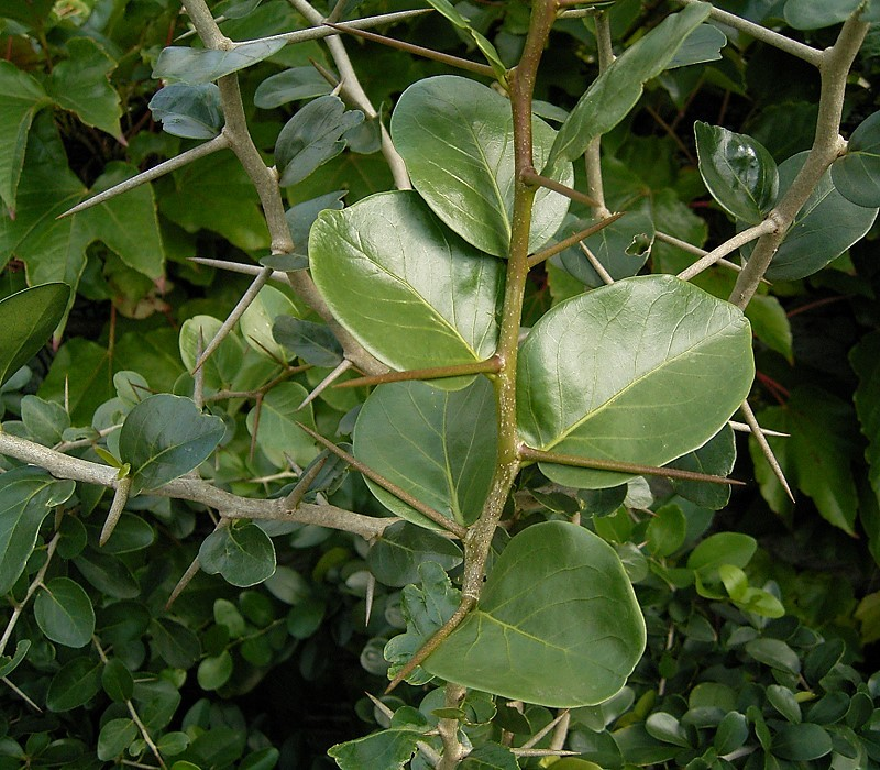 Dovyalis caffra